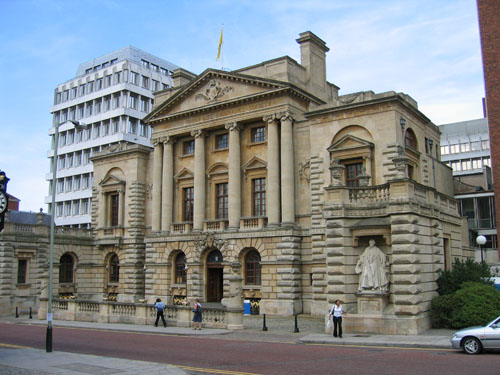 Surrey House on Surrey Street. The historic headquarters of Norwich Union. Designed by George Skipper